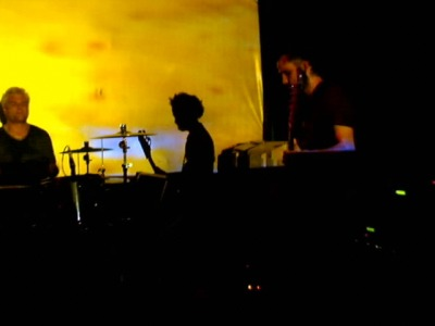 Dutch stoner rock band 35007 live at Cafe Central in Weinheim, Germany, May 31, 2002 (picture 2 of 2 at Wikimedia Commons)